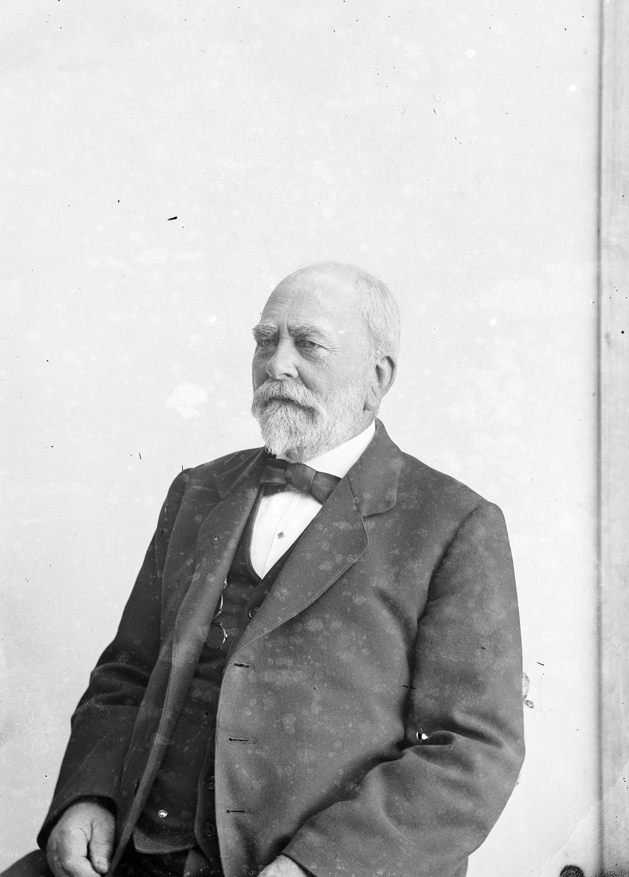 SFFf-100319.181267 This could quite possibly be a self-portrait of photographer Andreas Mathias Anderssen (1849-1943).